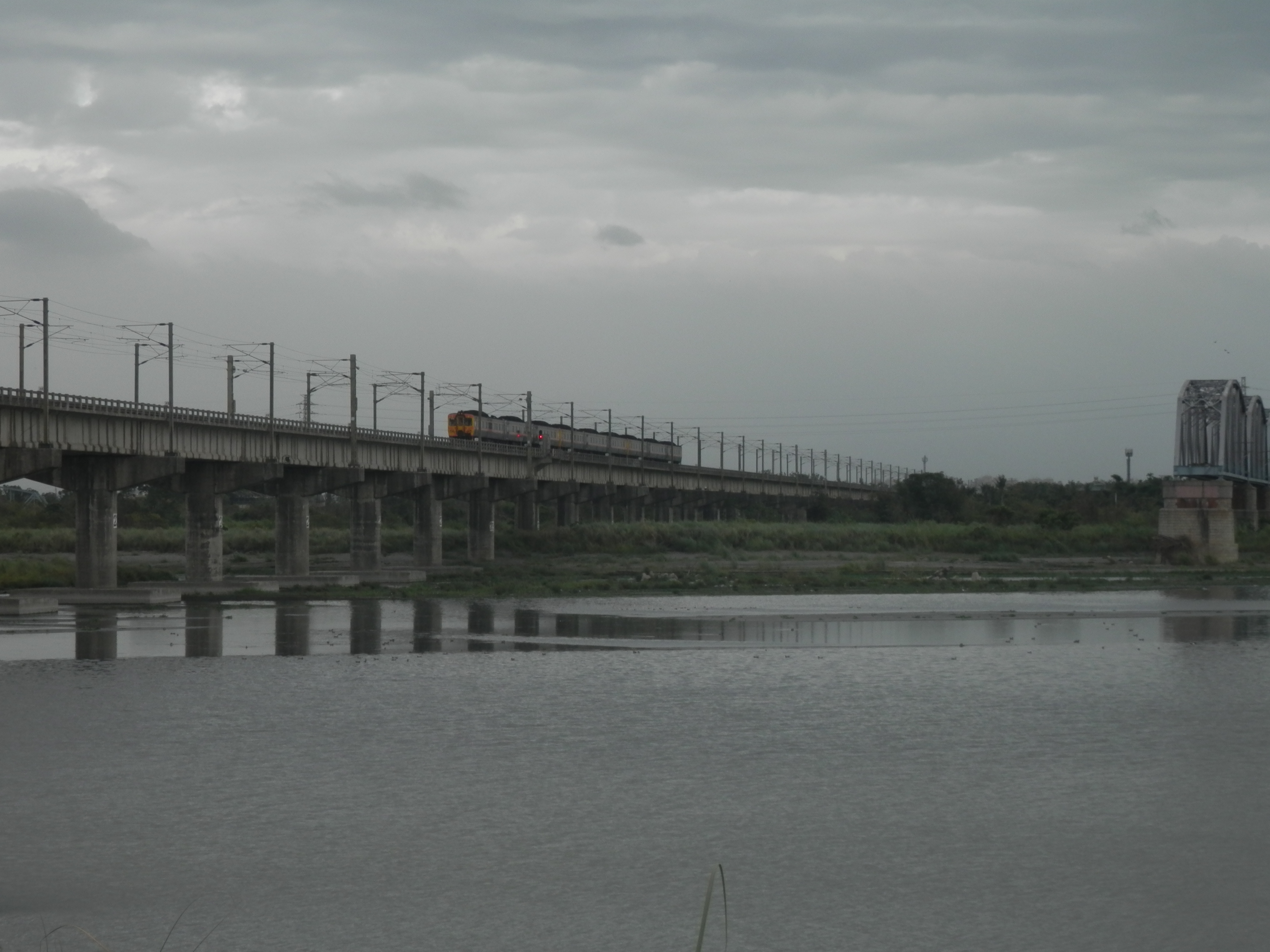 TRA Tze-Chiang Ltd-Exp Type DMU DR2800 at Pingtung Line between Liukuaicuo Station and Jiuqutang Station